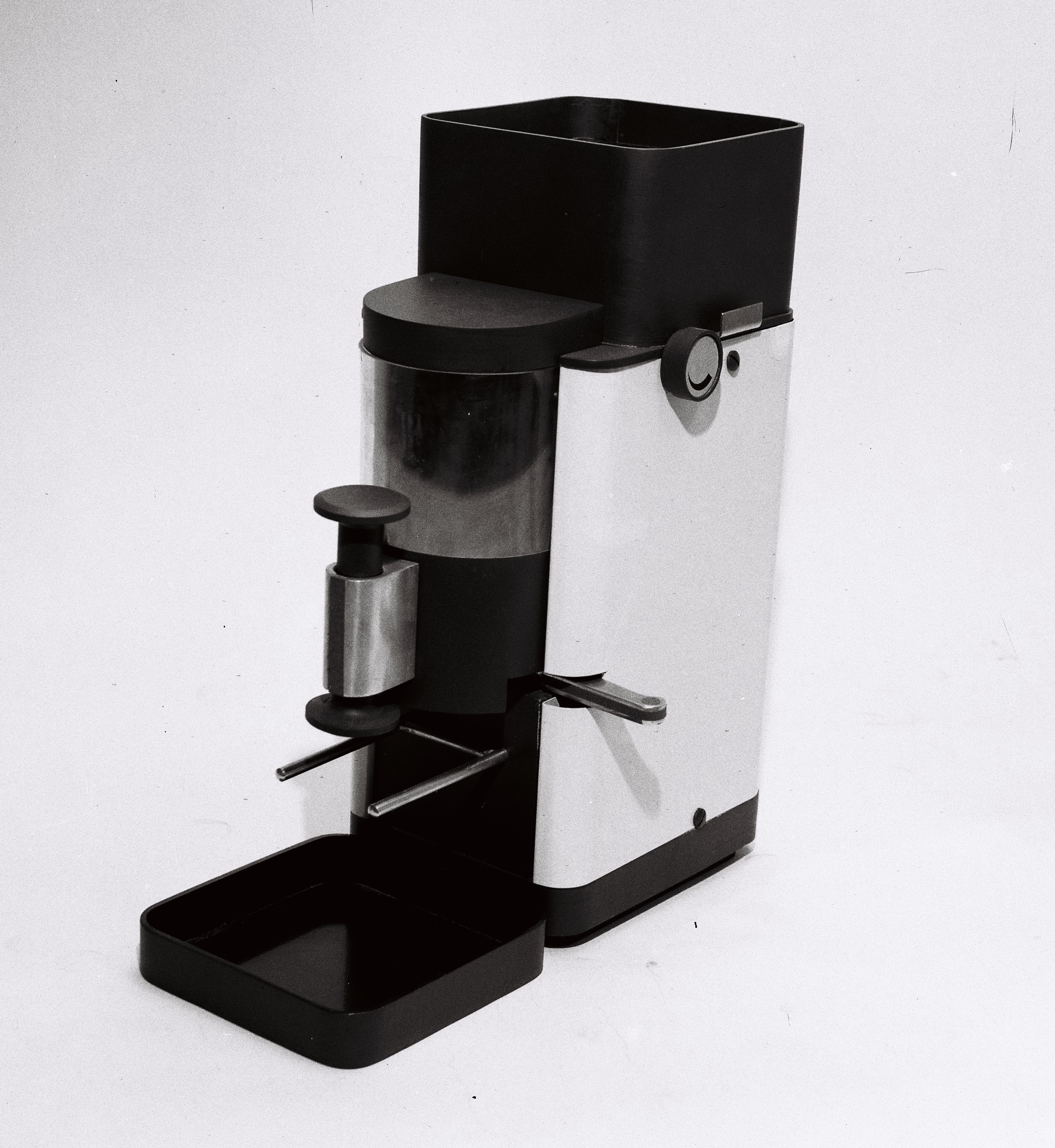 Coffee grinder with a dozer from 1986 designed by Gojko Varda for Precise Mechanics Factory INEX Borac